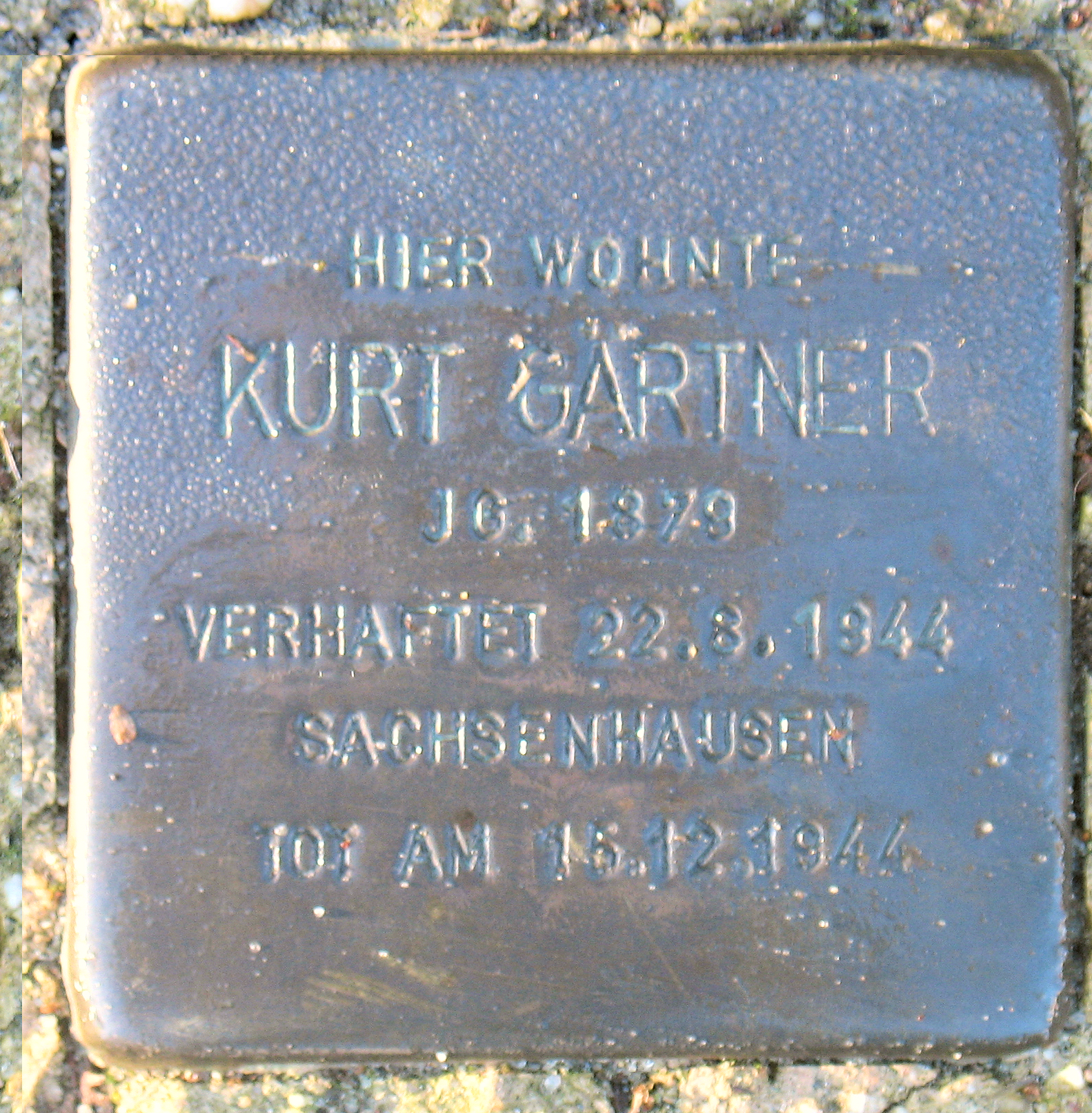 "Stolperstein" (stumbling block), Kurt Gärtner, Gretelstraße 10, Berlin-Neukölln, Germany gestohlen am 10. November 2017